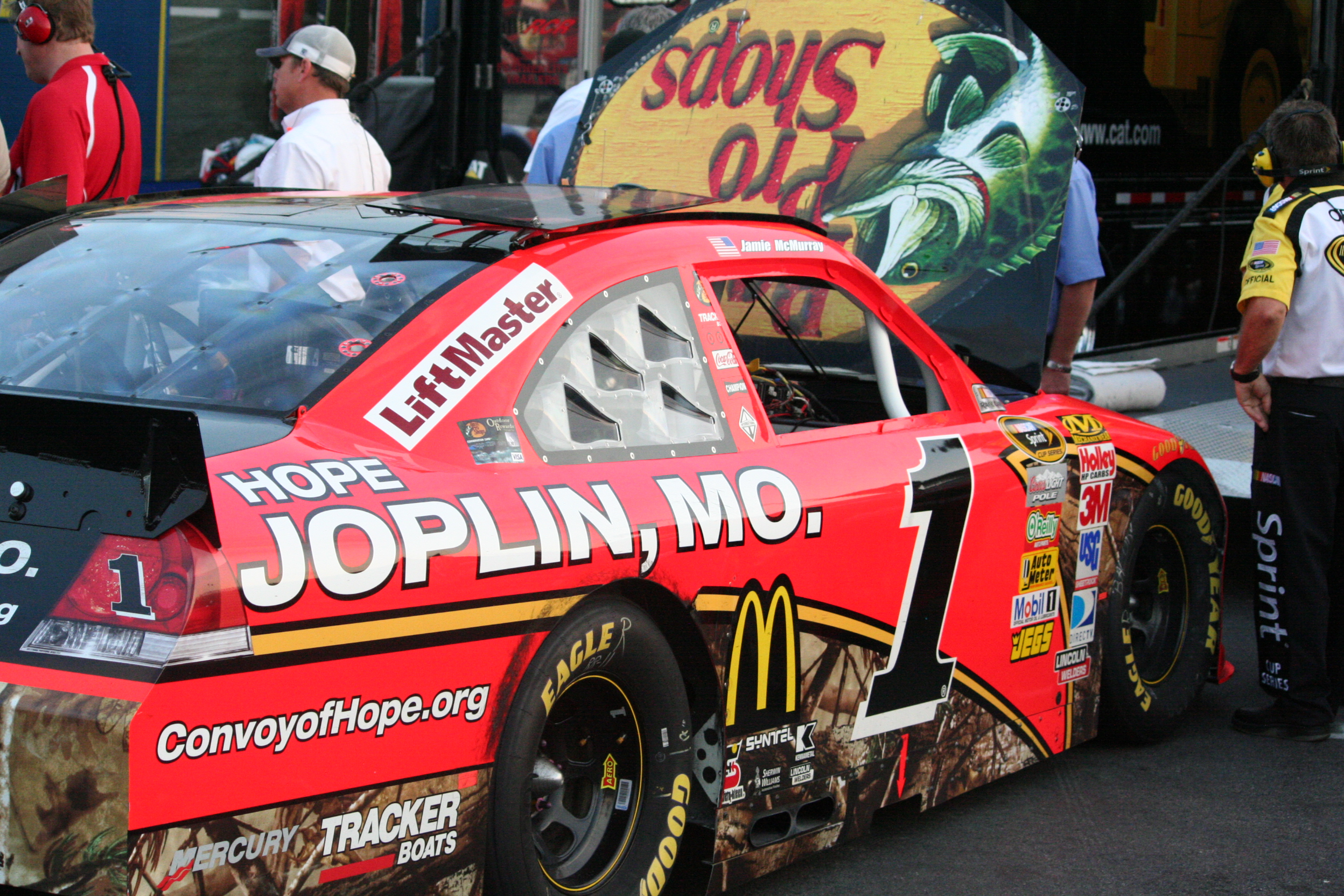 Jamie McMurray's car during the 2011 Coca-Cola 600 at Charlotte Motor Speedway in May 29, 2011.